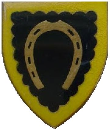 SADF era Harrismith Commando emblem